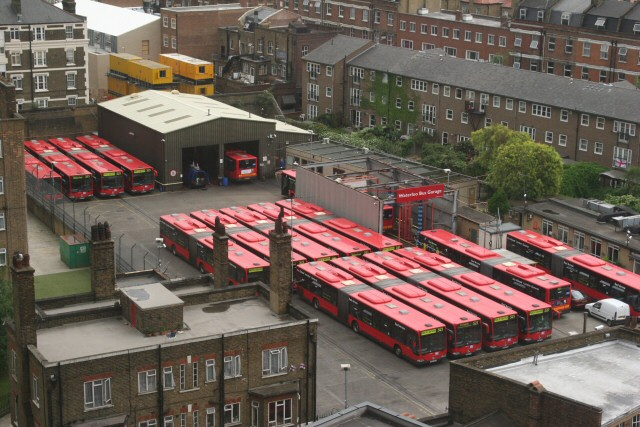 Red Arrow artics at Waterloo bus depot